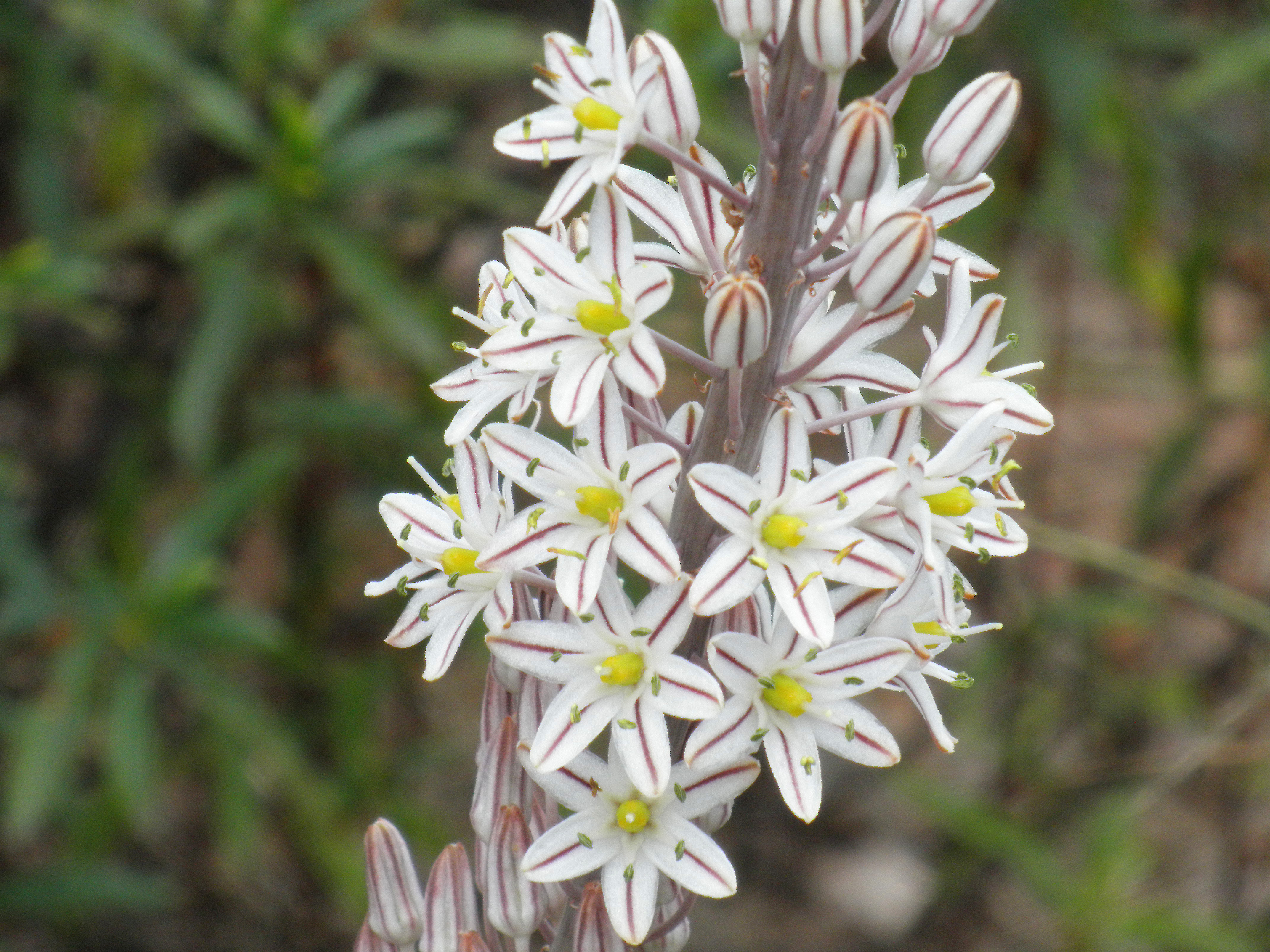 Drimia maritima flowers close up, Sierra Madrona, Spain